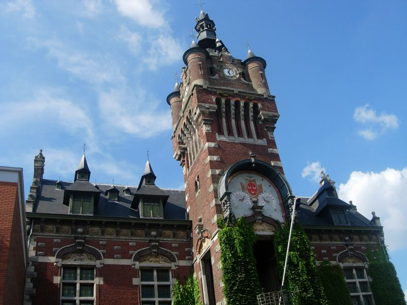 Town hall of Loos and its belfry, registered on the World Patrimony of UNESCO in 2005.